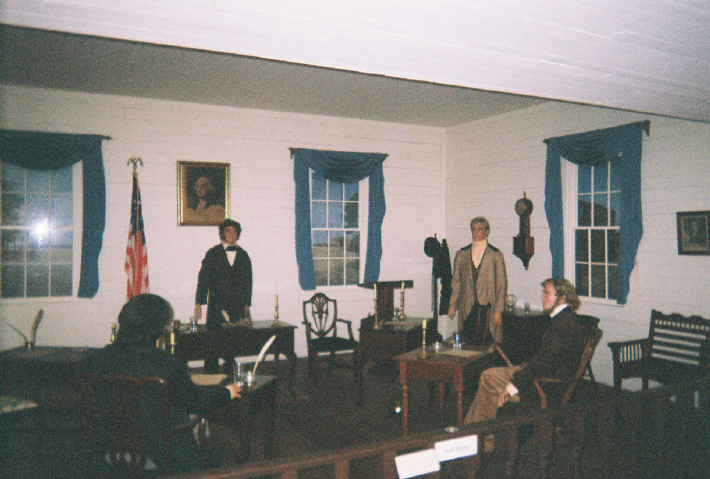 Constitution Convention Museum State Park in Port St. Joe, Florida (interior)